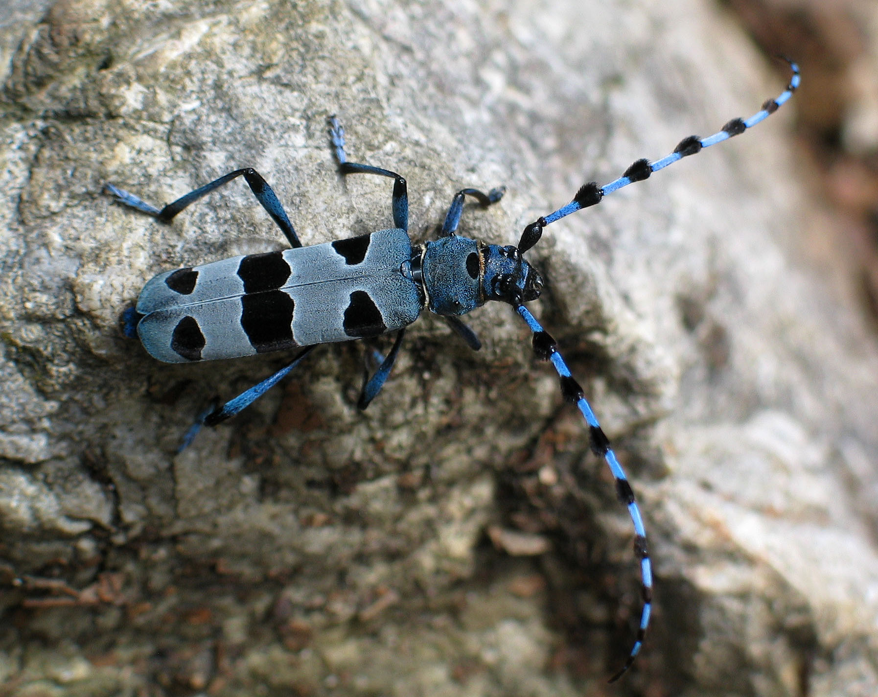 Rosalia Alpina, found near Gasselkogel, Upper Austria